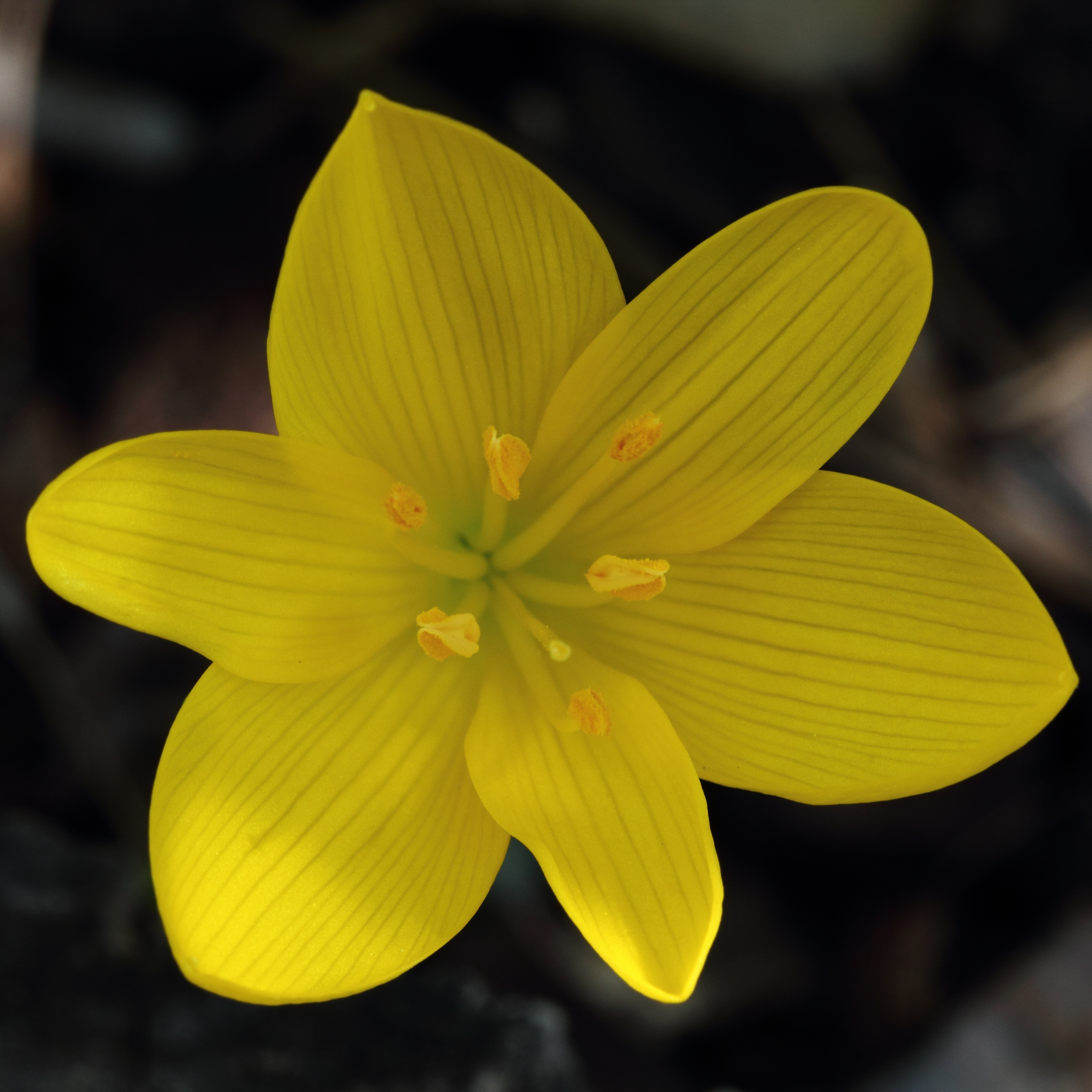 A Sternbergia lutea flower showing all its yellow parts: the six grey-striated tepals, the six yellow stamens, and the style with its stigma.